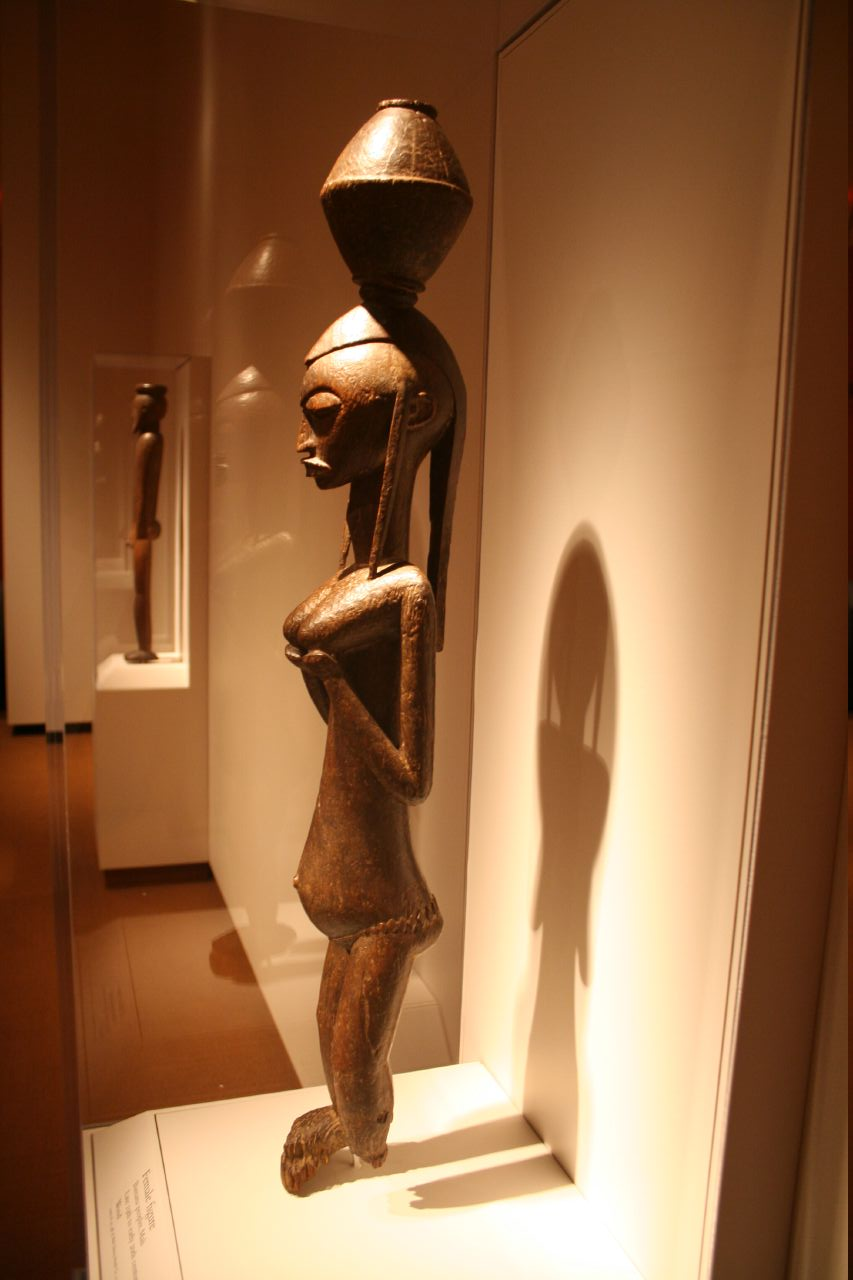 Female figure Bamana peoples, Mali Late 19th to early 20th century Wood African Art Museum, Smithsonian